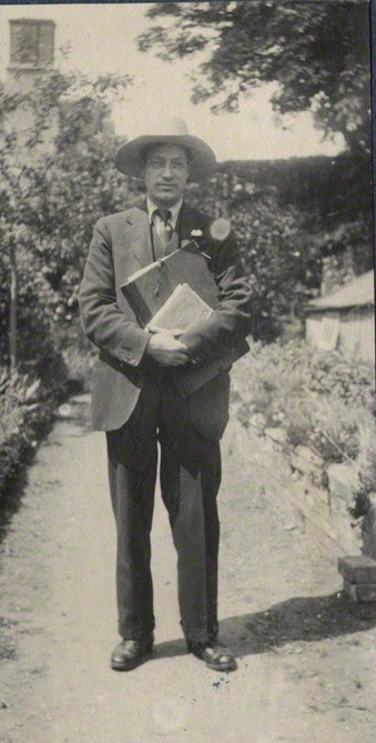 Lady Ottoline Morrell (1873-1938), vintage snapshot print/NPG Ax141304. Duncan Grant, 1922